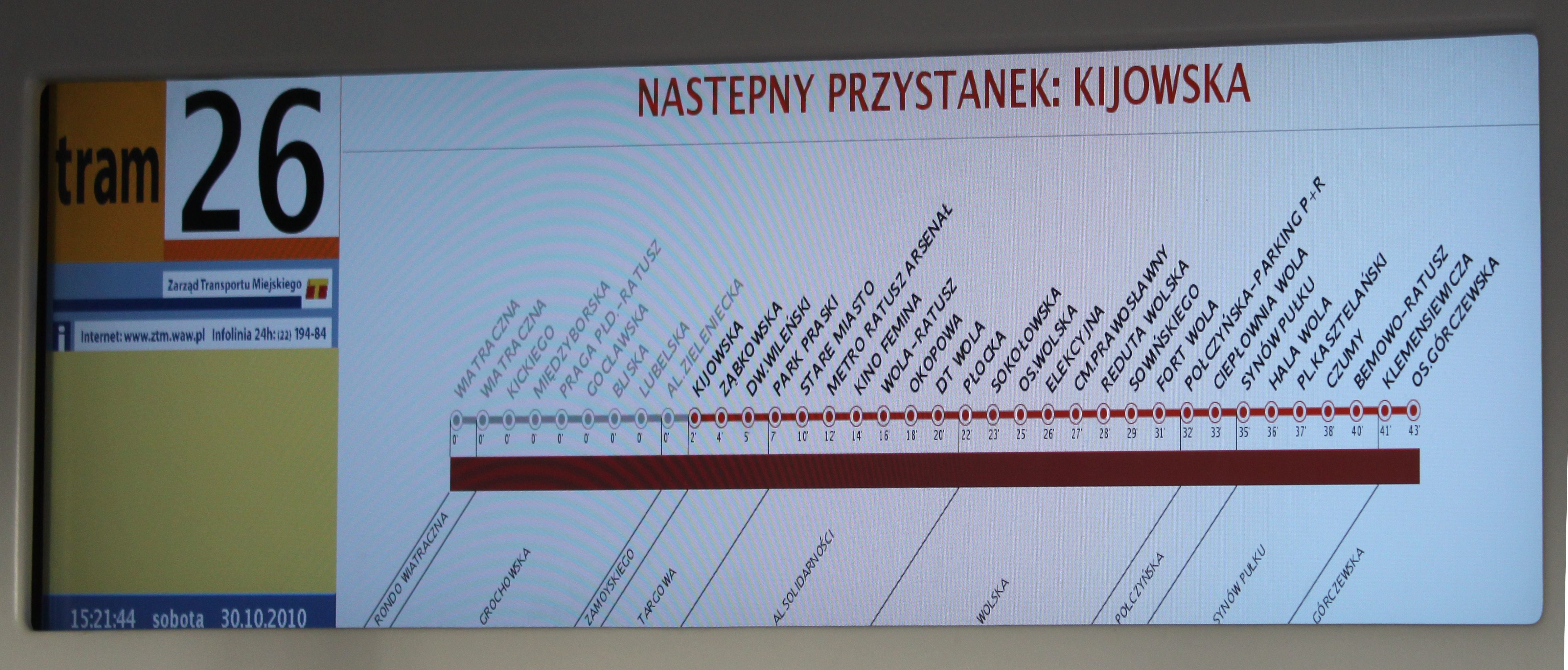 Interior of PESA 120Na SWING tram (#3122, built in 2010) on line 26 in Warsaw, Poland.